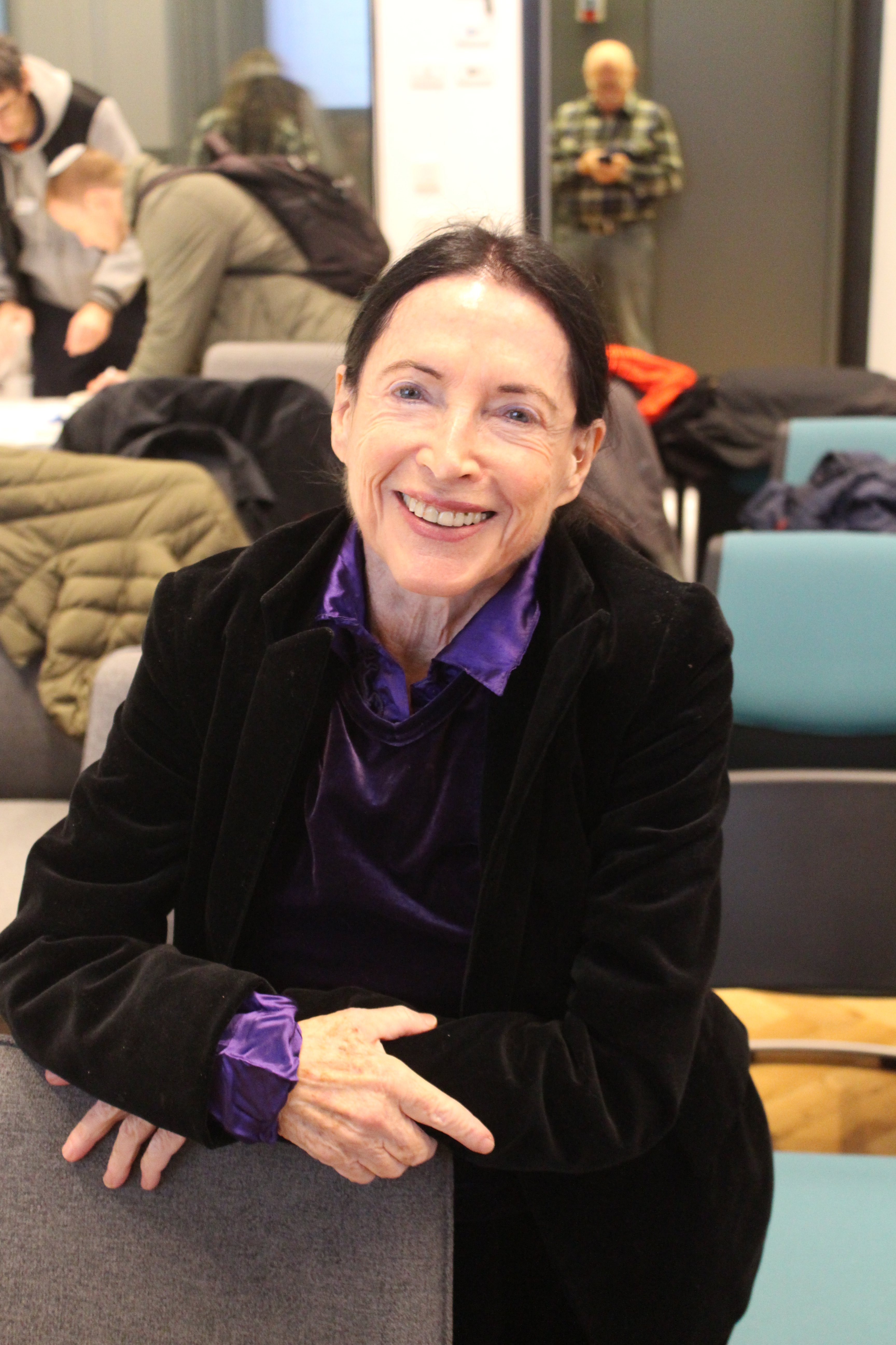 Wikipedia's 17th Birthday celebration. Wikimedian meetups in Israel: January 2018